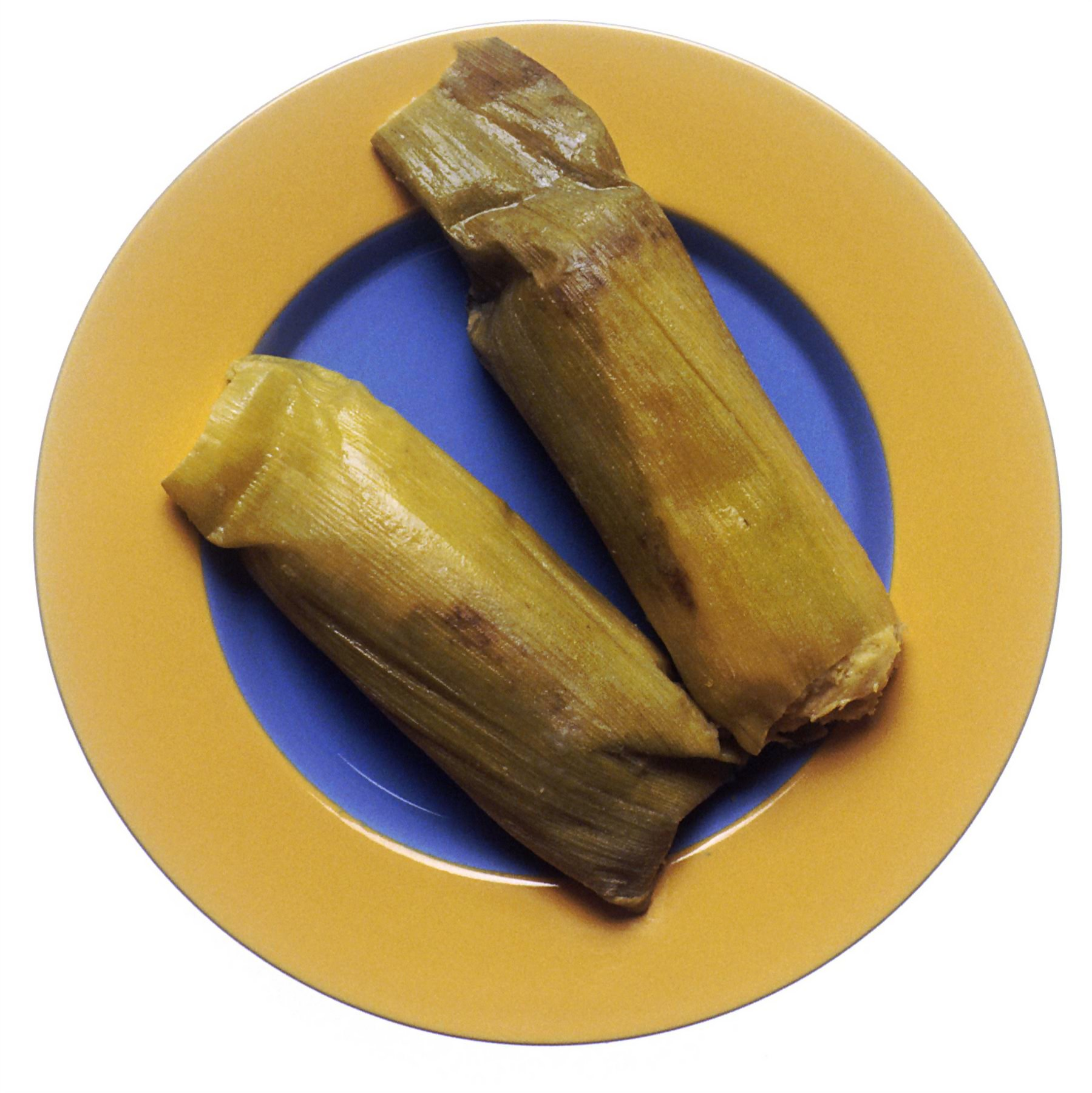 two tamales on a plate